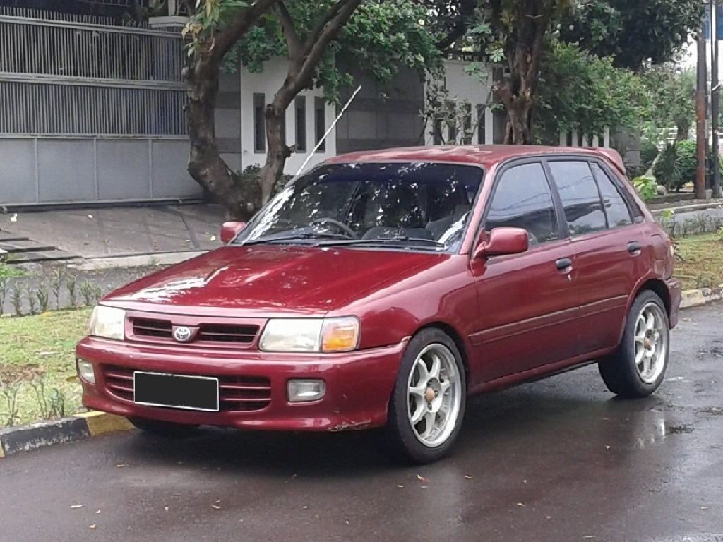 1996 Toyota "Fantastic" Starlet 1.3 SE-G (EP81), photographed in Jakarta, Indonesia.